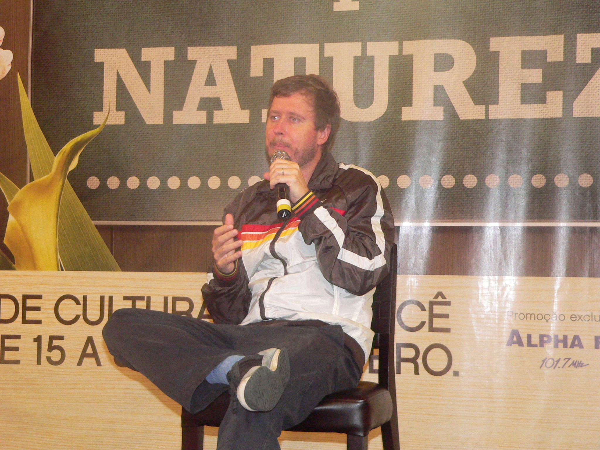 Leandro Narloch delivering a press conference at Cotia in 2011.